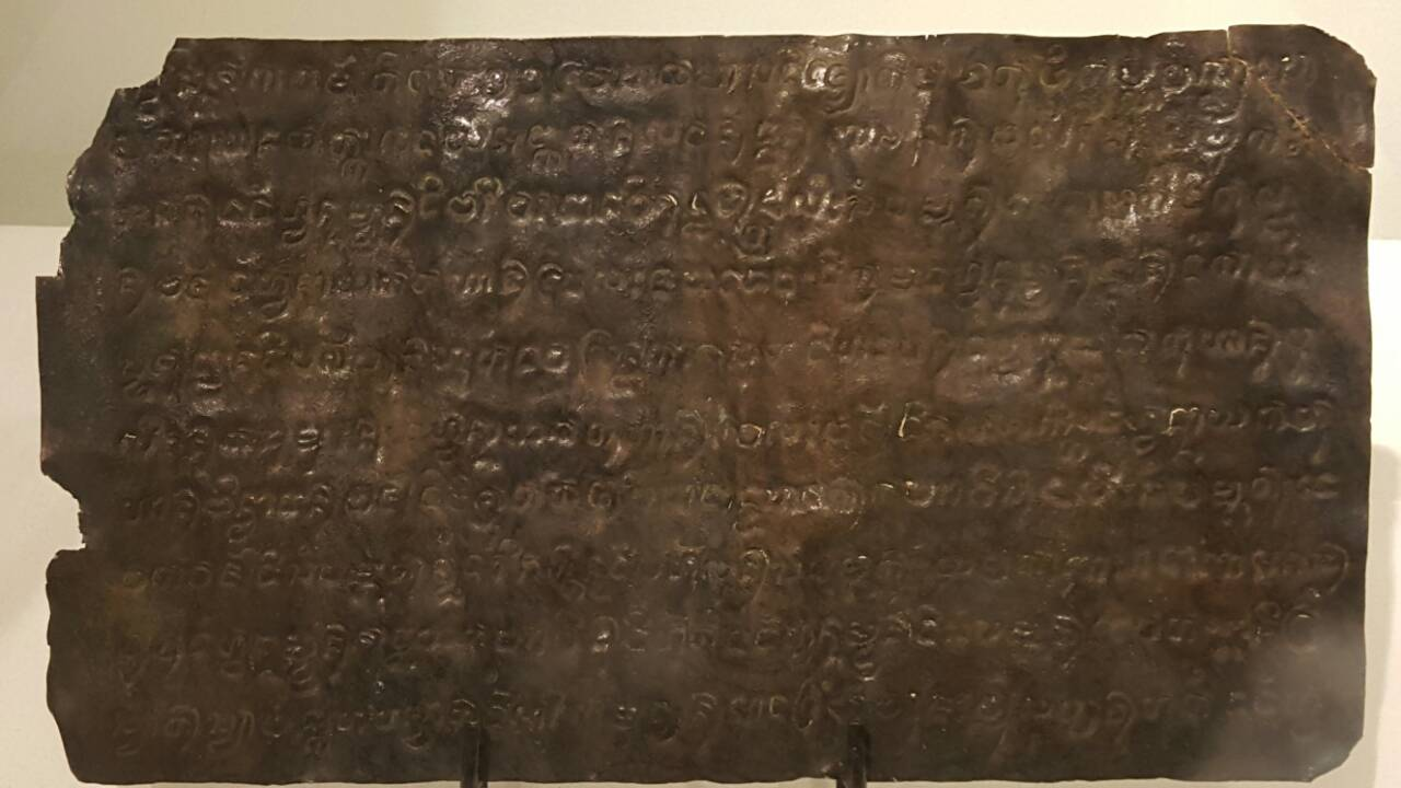 The Laguna Copperplate Inscription, the oldest historical record in the History of the Philippines which shows the early connections between the early inhabitants of Luzon and Java in Indonesia by the 10th century. Filipino: Ang Inskripsyon sa Binatbat na Tanso ng Laguna, ang pinakalumang makasaysayang kasulatan sa Kasaysayan ng Pilipinas kung saan ipinapakita ang maagang ugnayan ng mga taong naninirahan sa Luzon sa mga taga-Java sa Indonesia mula pa noong ika-10 dantaon.